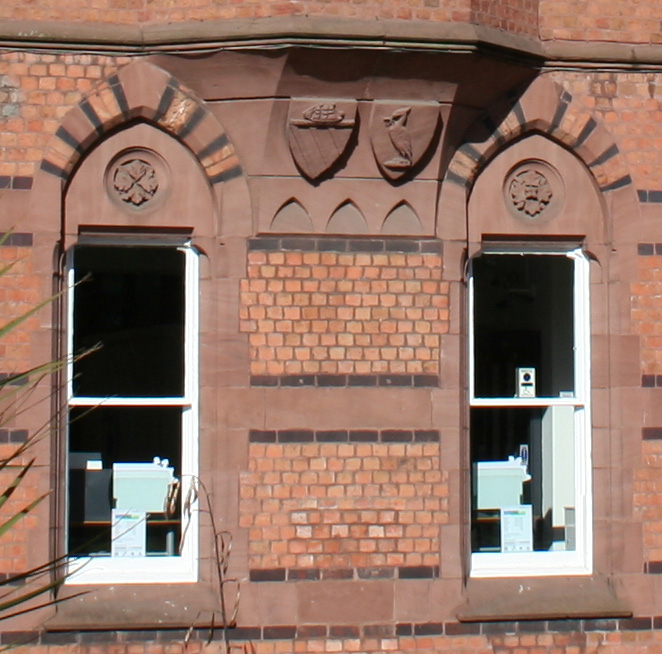 Former District Bank, 1–3 Churchyard Side, Nantwich, Cheshire